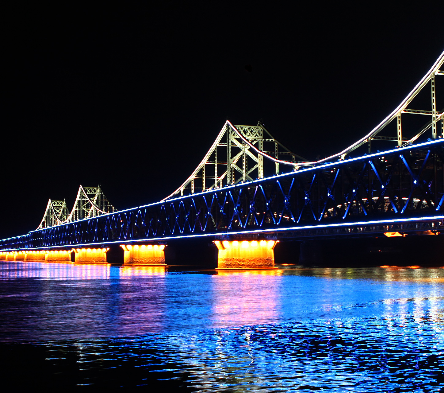 Glimpse of North Korea from China. The Friendship Bridge spans the Yalu River from Dandong, (China) and darkness in Sinuiju, North Korea. I looked at this bridge for a long time - enlightened bridge on chinese side ends in strange darkness in North Korea. During the night the town on the other side - Sinuiju is complete dark. Although it seems like edited in Photoshop, believe me, the picture is real.. unfortunately.